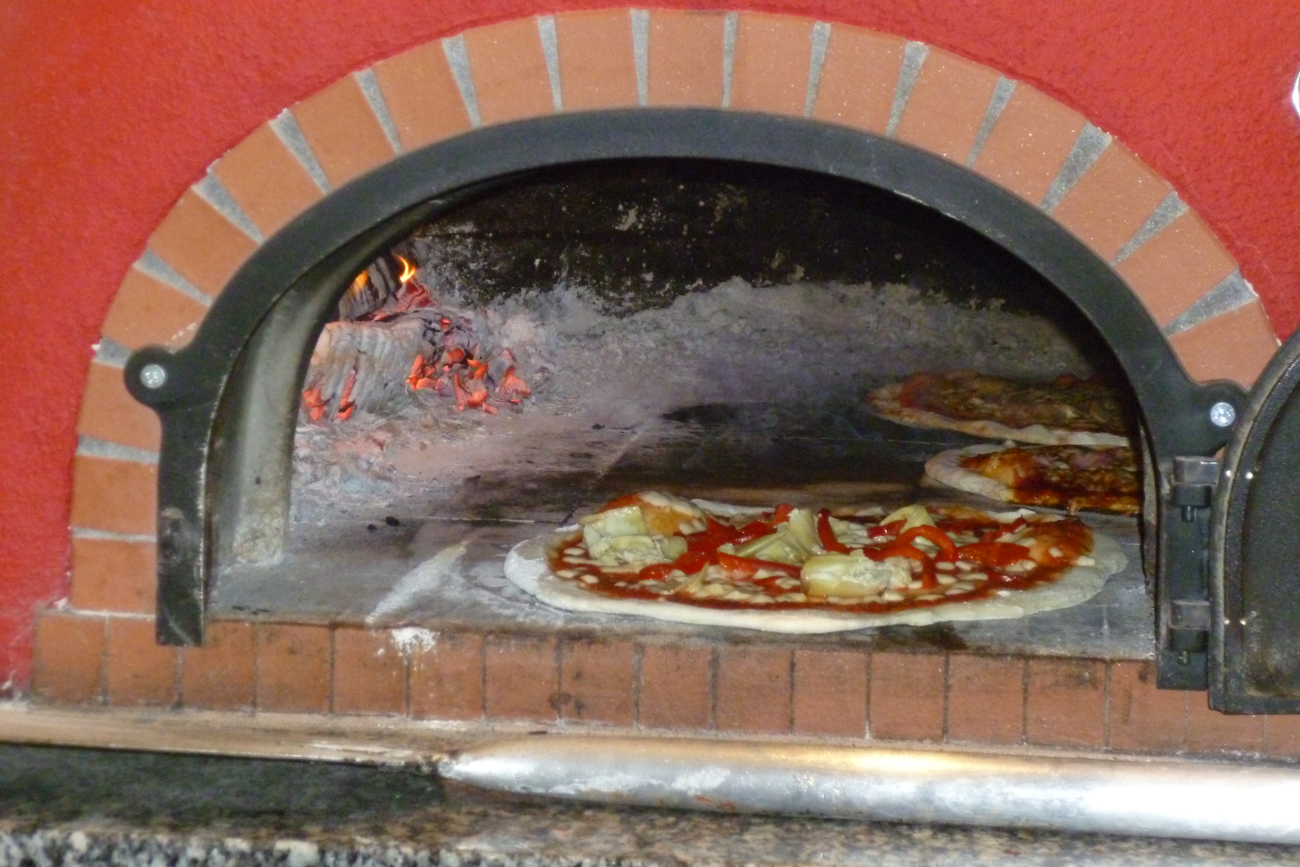 Pizza oven, Detail (Club Noi, Rotkreuz)